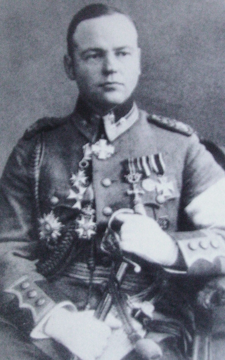 Picture of Kurt Martti Wallenius, Finnish officer